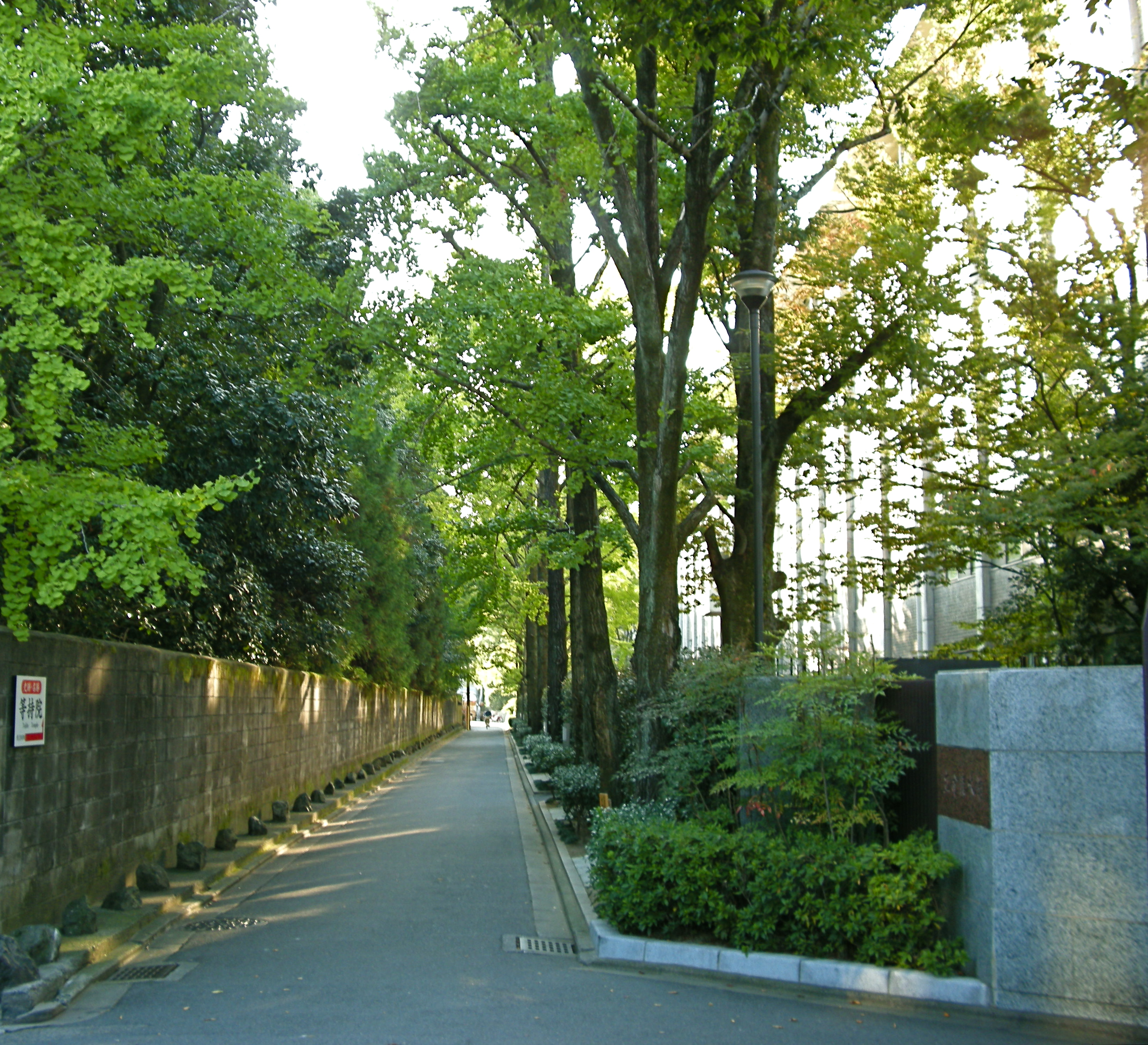 Toji-in Temple and Row of Gingko Trees at Kinugasa Campus (Ritsumeikan University, Kyoto, Japan)